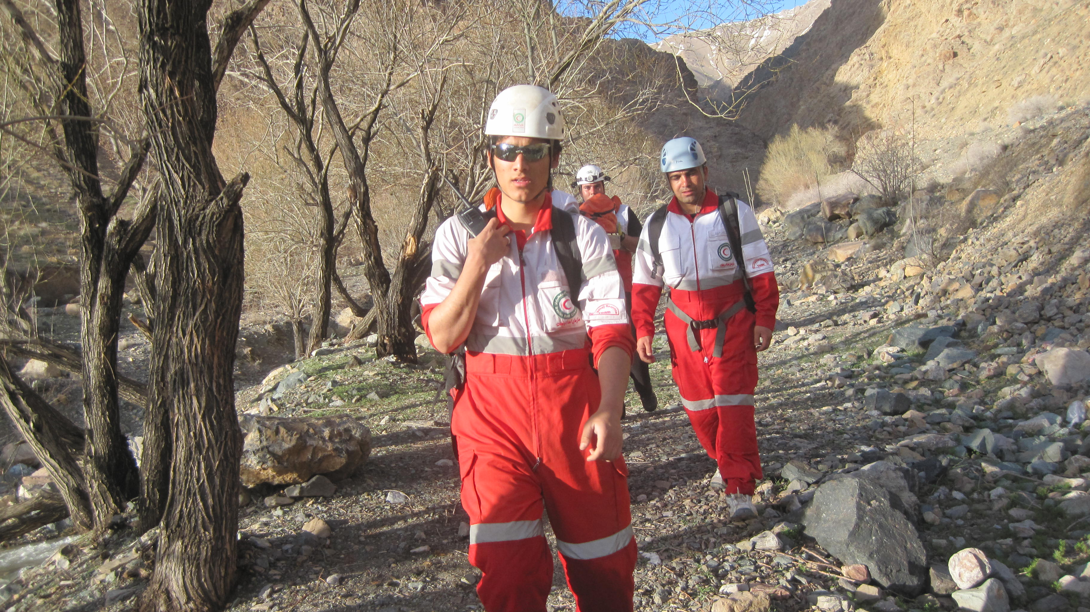 Mountain rescue